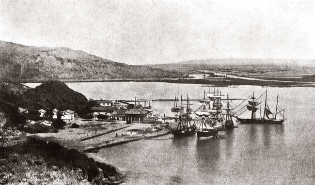 1867年打狗港哨船頭 Library in US 1867年 William Pickering pd-old